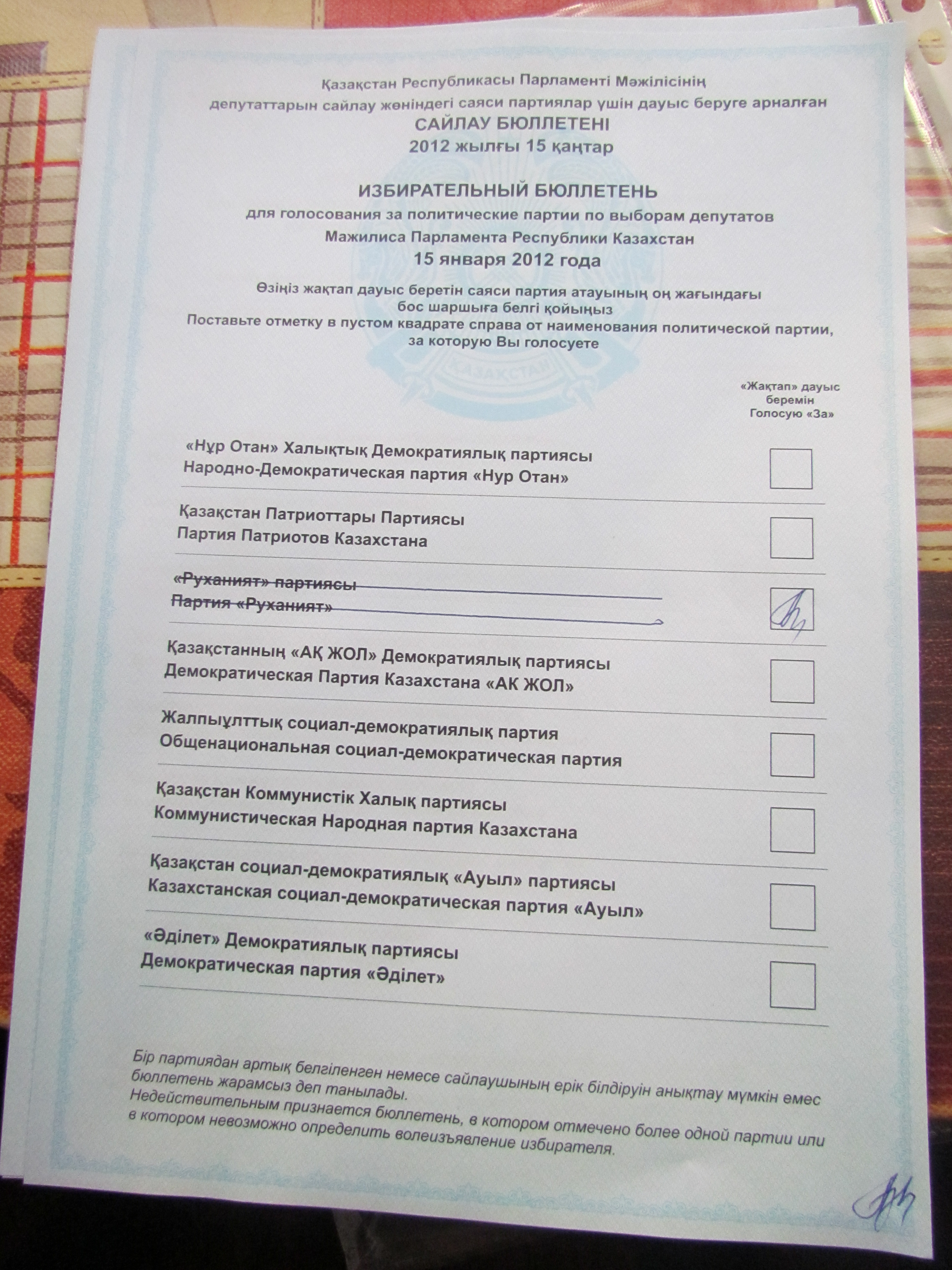 Избирательный бюллетень на внеочередных выборах депутатов мажилиса парламента Республики Казахстан 15 января 2012 года. Партия "Руханият" вычеркнута вручную членом избирательной комиссии после отмены регистрации её списка Центральной избирательной комиссией Казахстана.